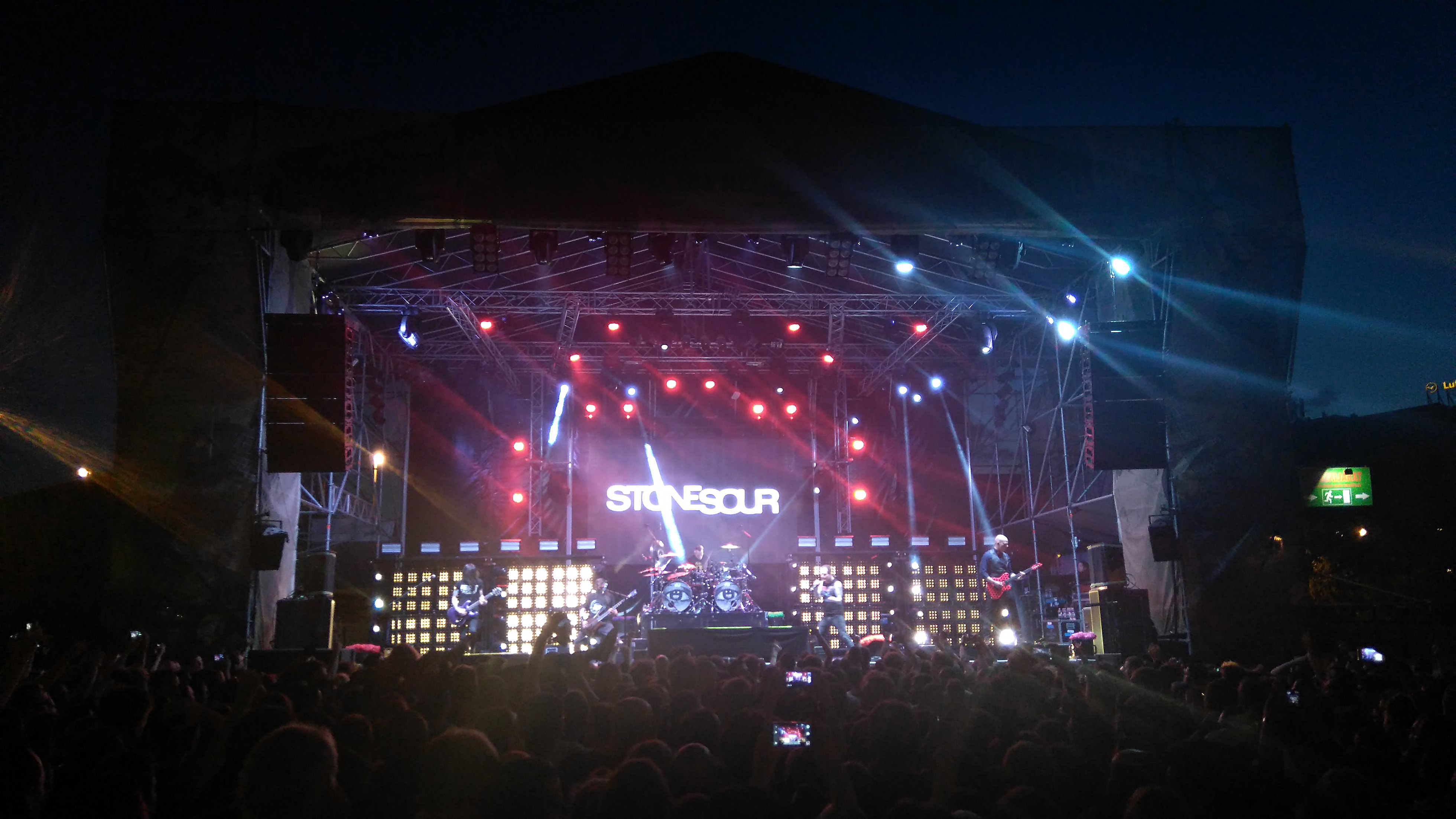 Stone Sour in Budapest, Hungary (venue: Barba Negra Track), 25 June 2018